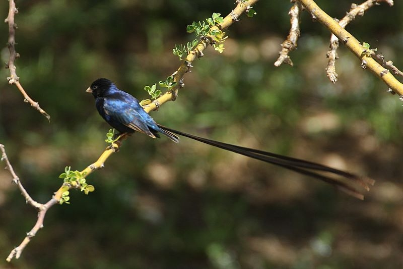 A male Steel-blue Whydah in Ngorongoro, Tanzania.